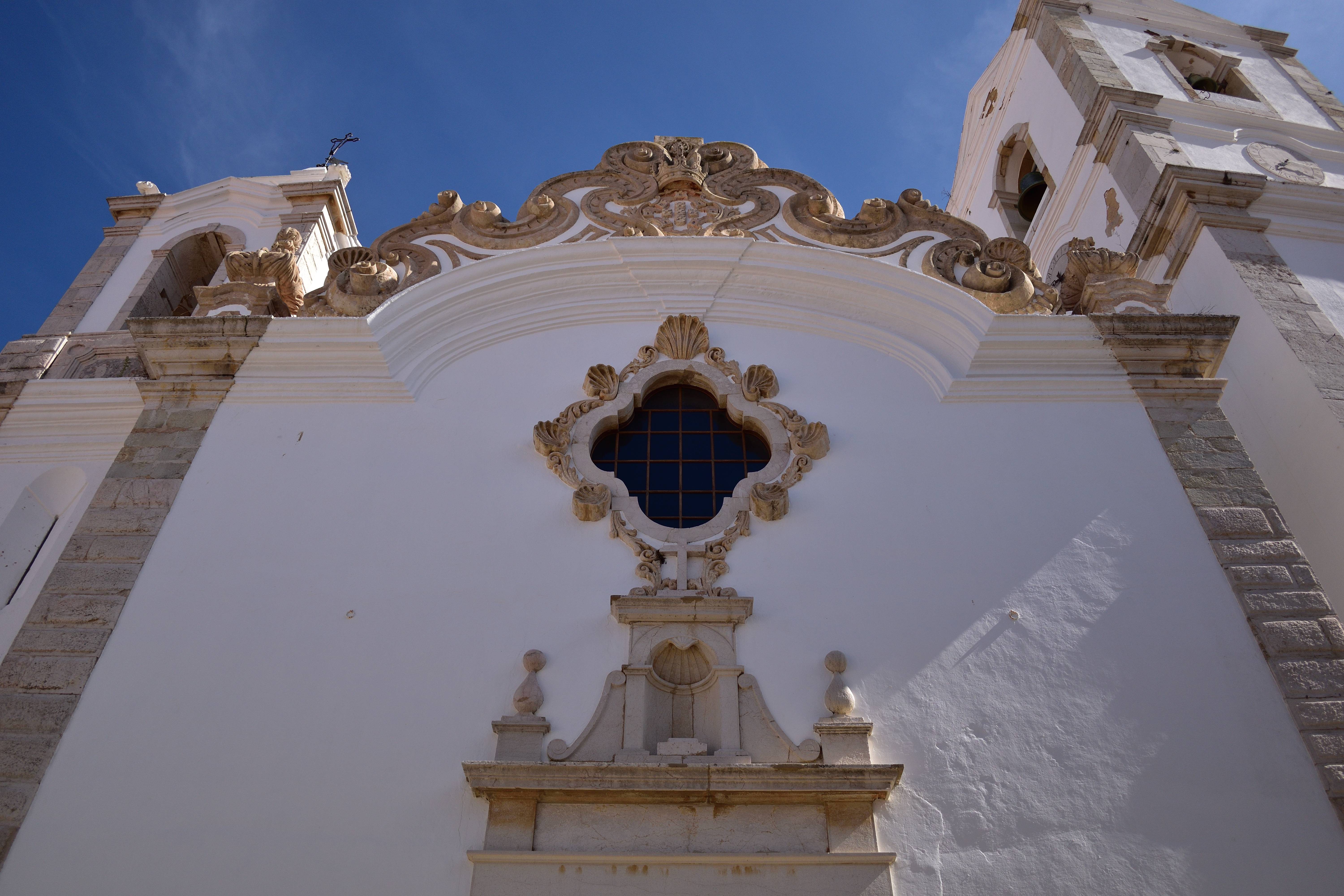 Decorations on Santo António's Church, Lagos, Algarve - Portugal.